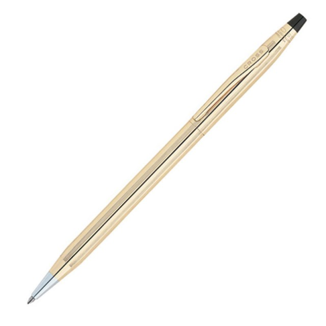 Century Classic